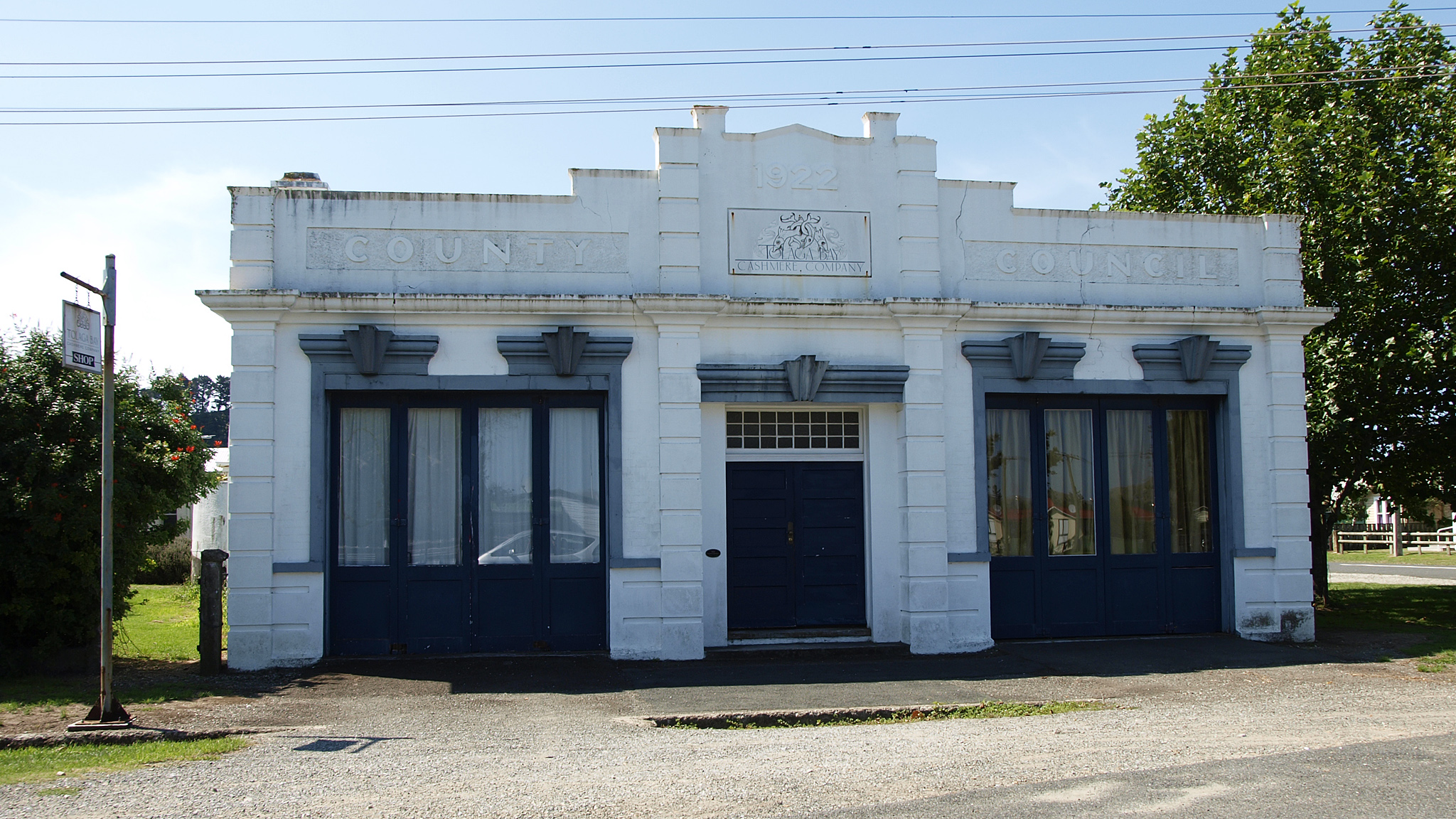 County Council Building (1922), Tolaga Bay (village), Gisborne Region, New Zealand. New Zealand Historic Places Trust Category II, registration number 3560.